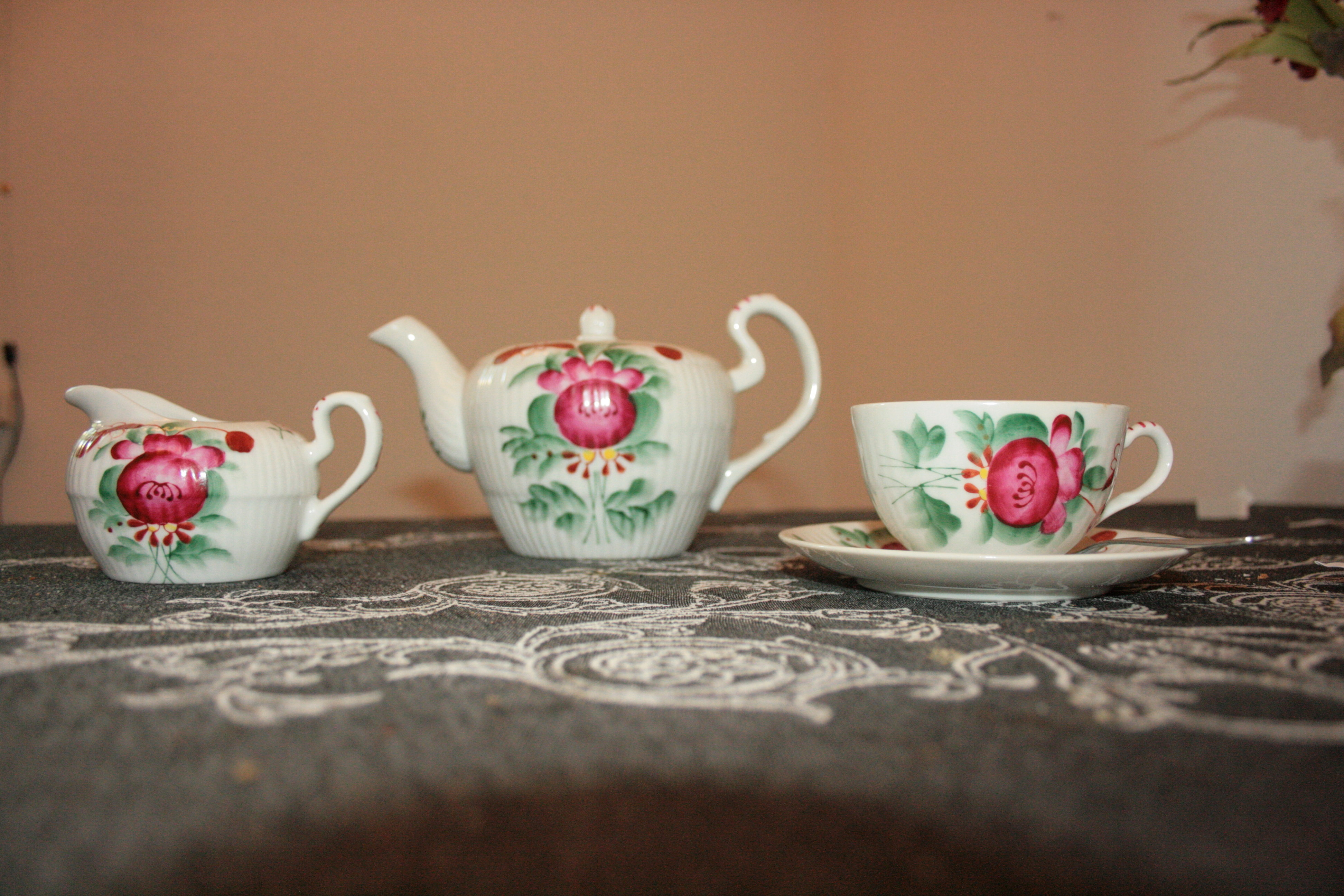 A tea set in a style typical of East Frisia in Lower Saxony, Germany. Frisian: Teerose Ostfrieslandtypsches Dekor.